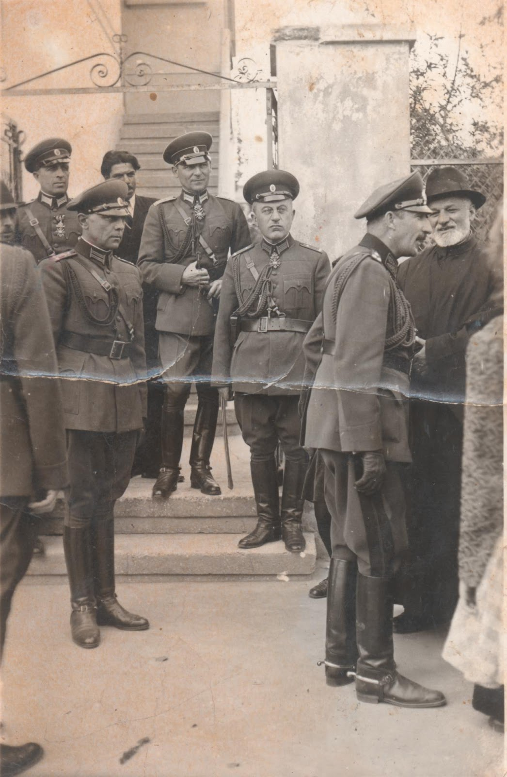 Trpko Karapalev with Tsar Boris III in Dedeagach